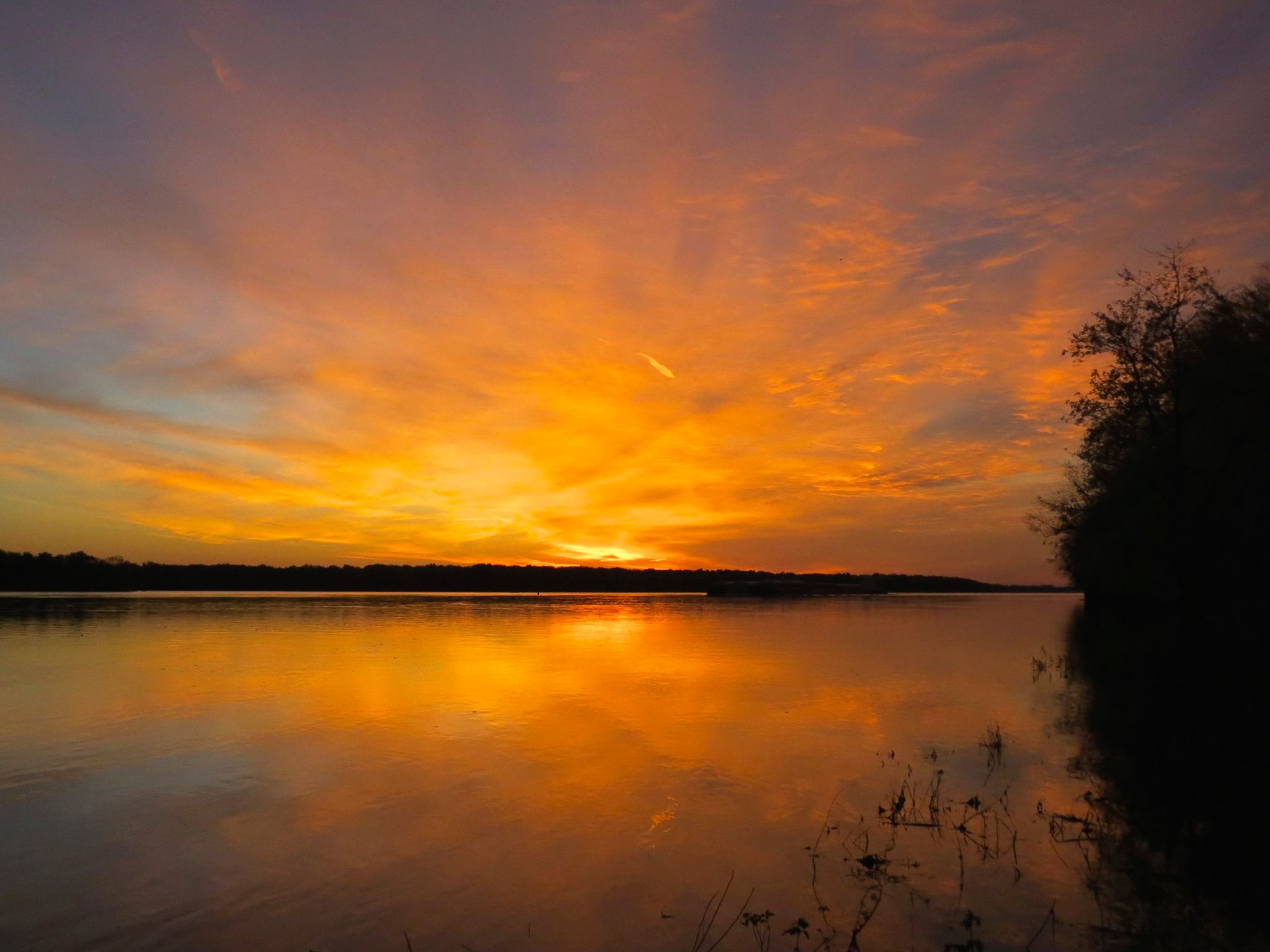 What a stunning view! There's nothing quite like a fall sunrise over the Mississippi River at Port Louisa National Wildlife Refuge in Iowa. Photo by Jessica Bolser/USFWS.